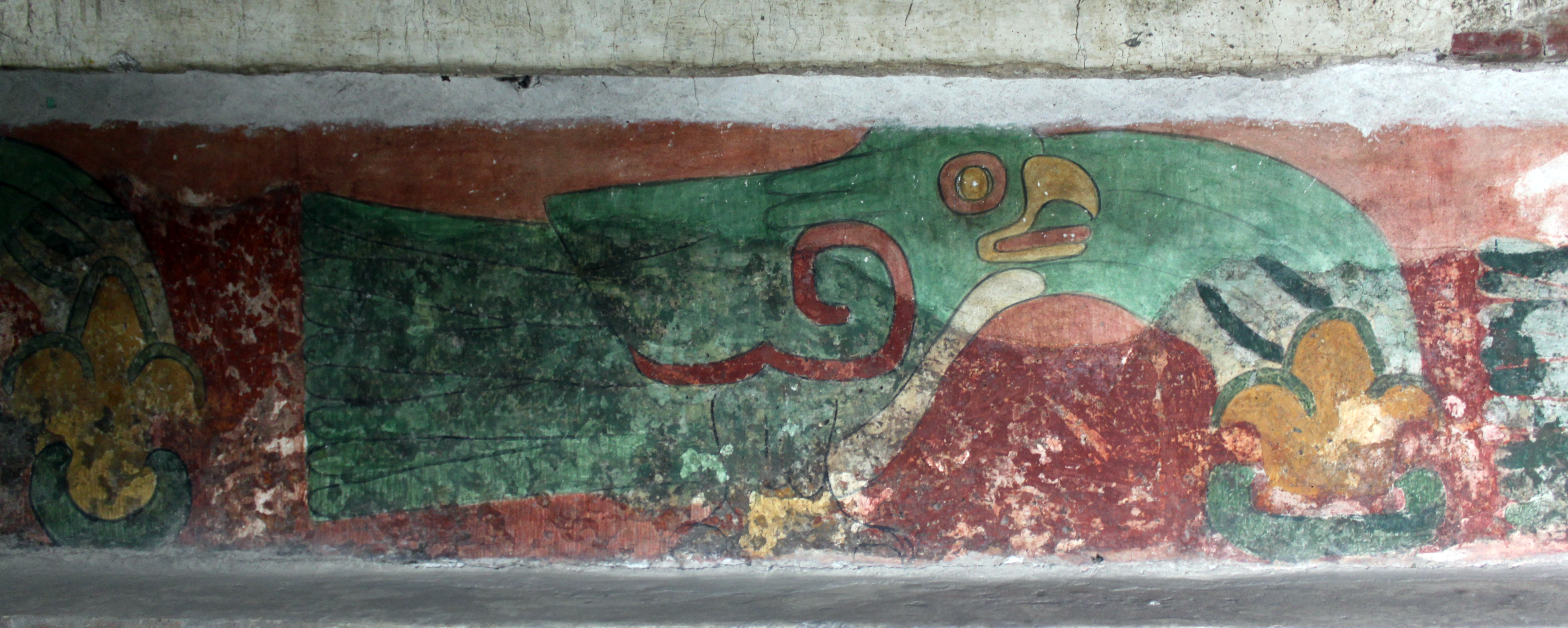 Teotihuacan: Temple of Feathered Snails, Green Bird Procession